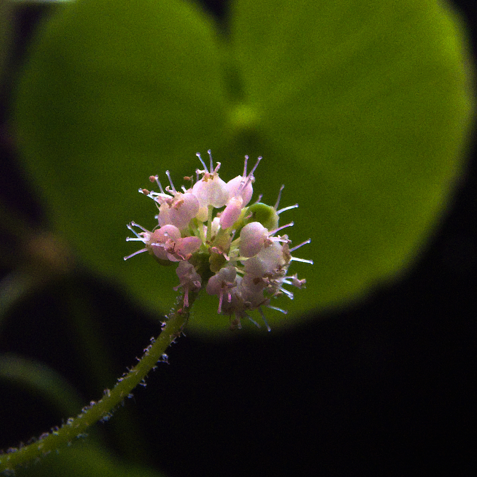 Hydrocotyle vulgaris. ( Wikipedia: )